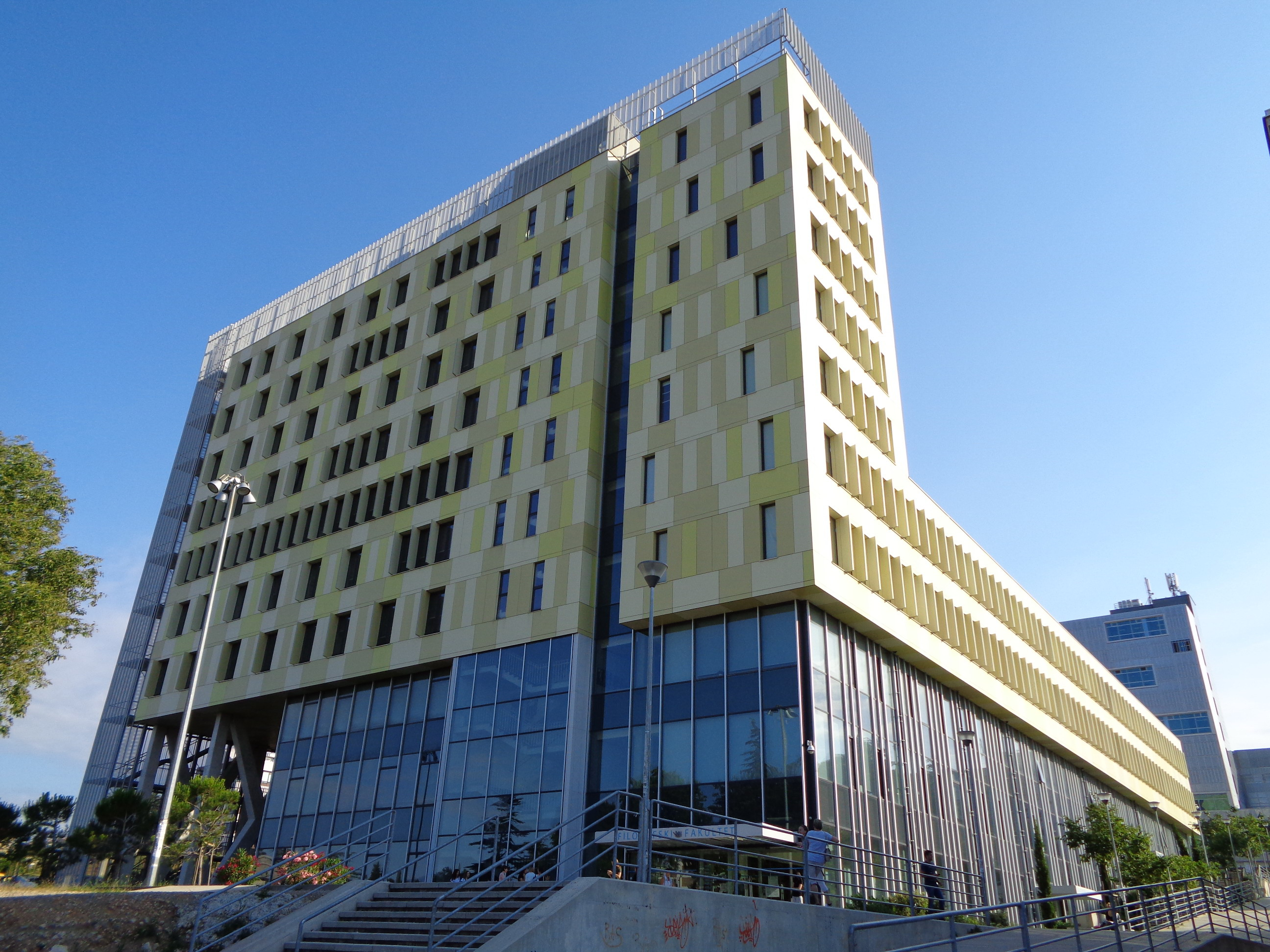 Faculty of Philosophy, Rijeka, Croatia